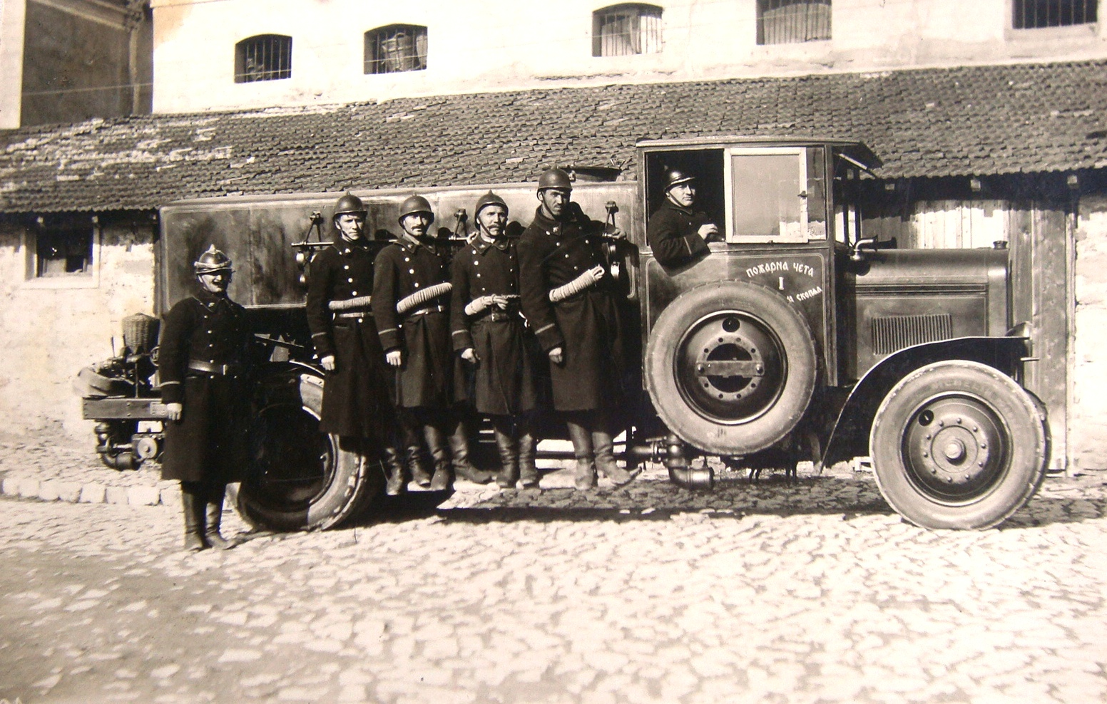 Historical images of Skopje: Firefighters vehicle and firefighters. This media file is produced by Wikipedian in Residence in Category:Wikipedian in Residence at DARM in 2016.